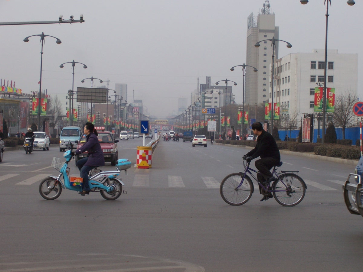 Photo of Yingbin st. Yuci 中文（中国大陆）: 榆次迎宾街